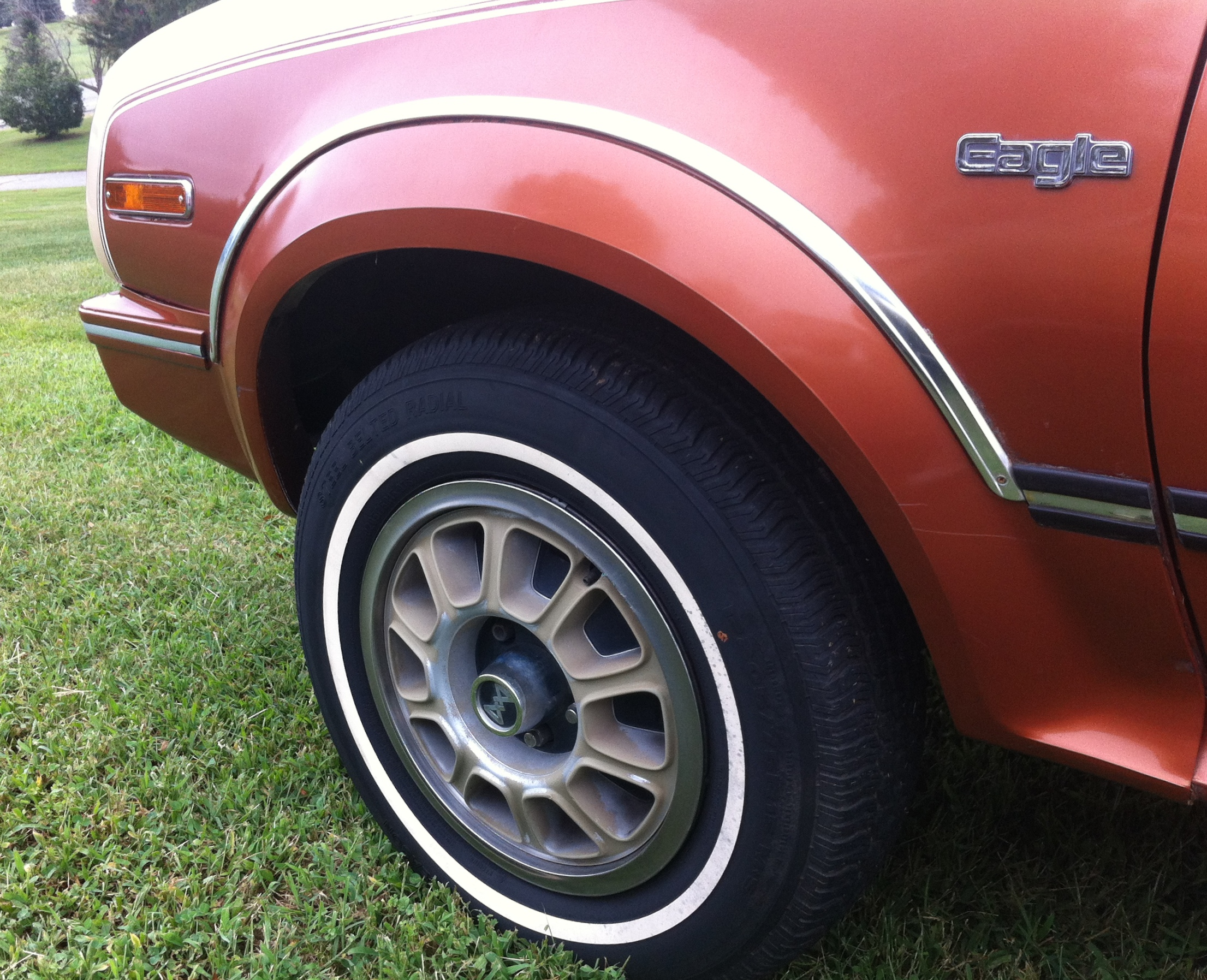 Detail of the left front fender and wheel of a 1982 AMC Eagle 4-door station wagon in a two-tone exterior. An innovative automatic all-wheel-drive vehicle made by the American Motors Corporation (AMC)